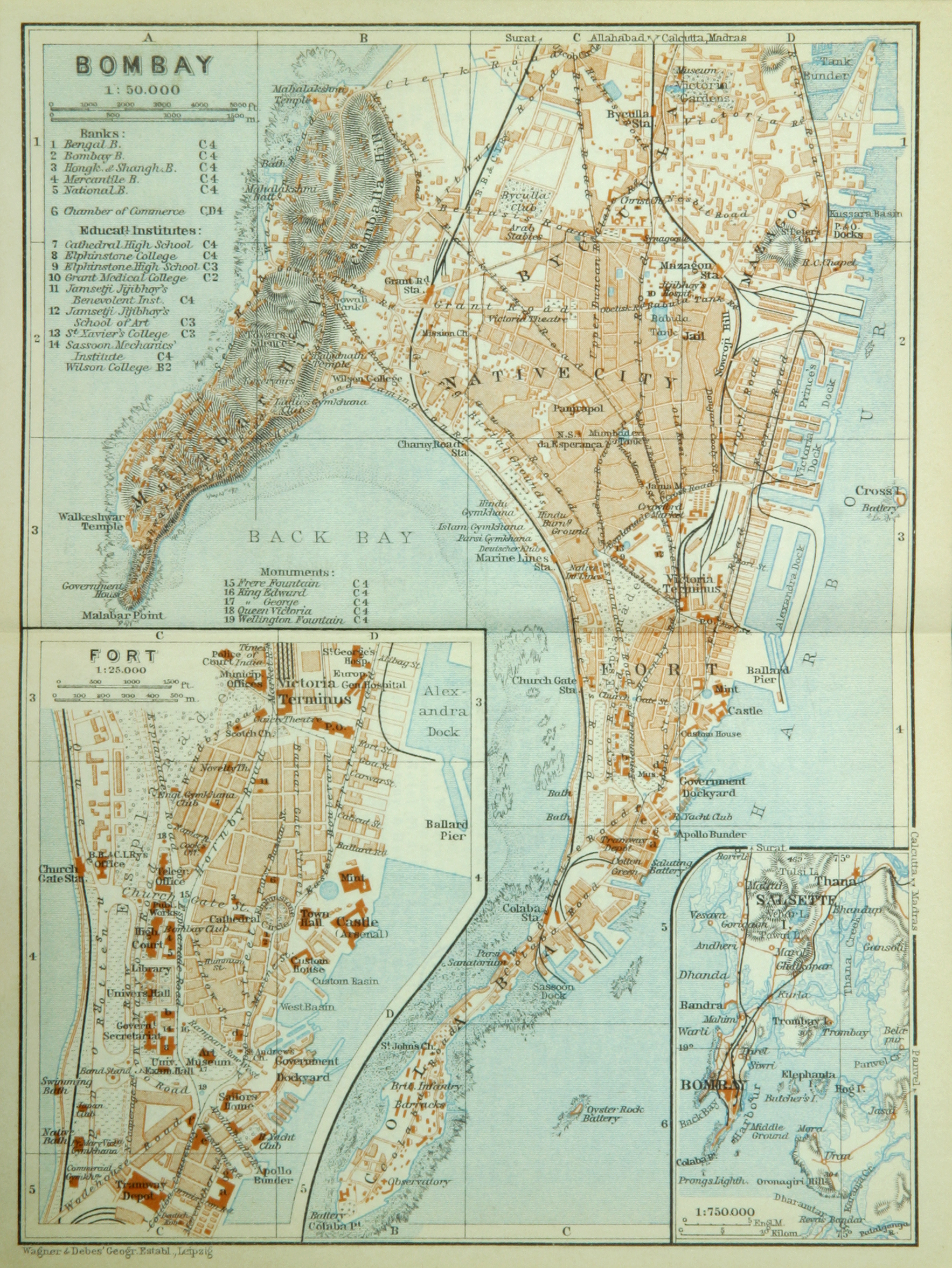 Map of the city of Bombay, modern Mumbai, ca 1914 (1:50,000), incl. two inserted smaller maps, one depicting the neighbourhood around the Fort (1:25,000), the other depicting the whole area around the Bay of Bombay (1:750,000). Labelled in English.